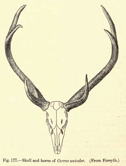 Skull and antlers of a sambar